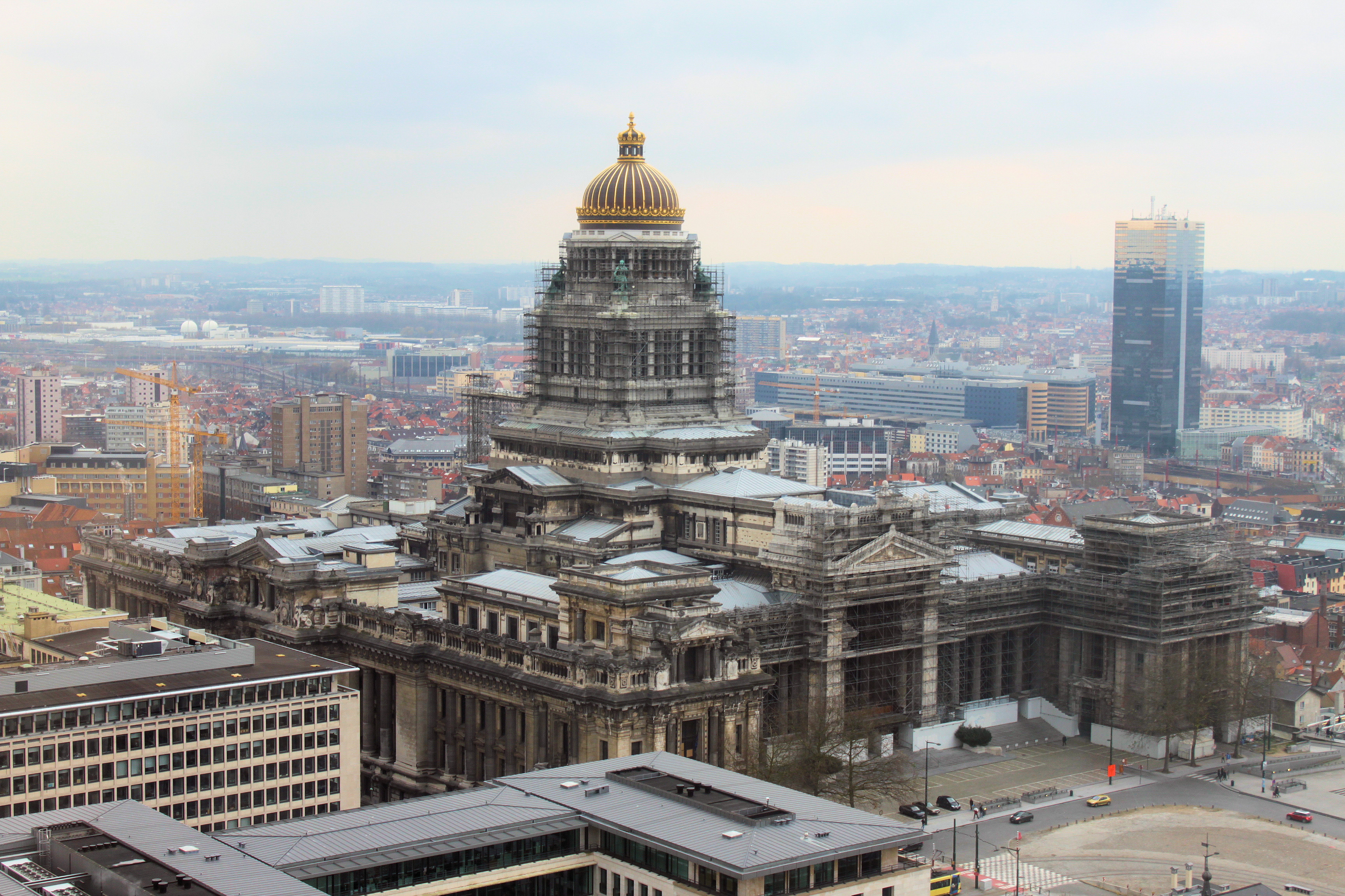 The Brussels Palace of Justice in 2009, viewed from The Hotel Brussels.